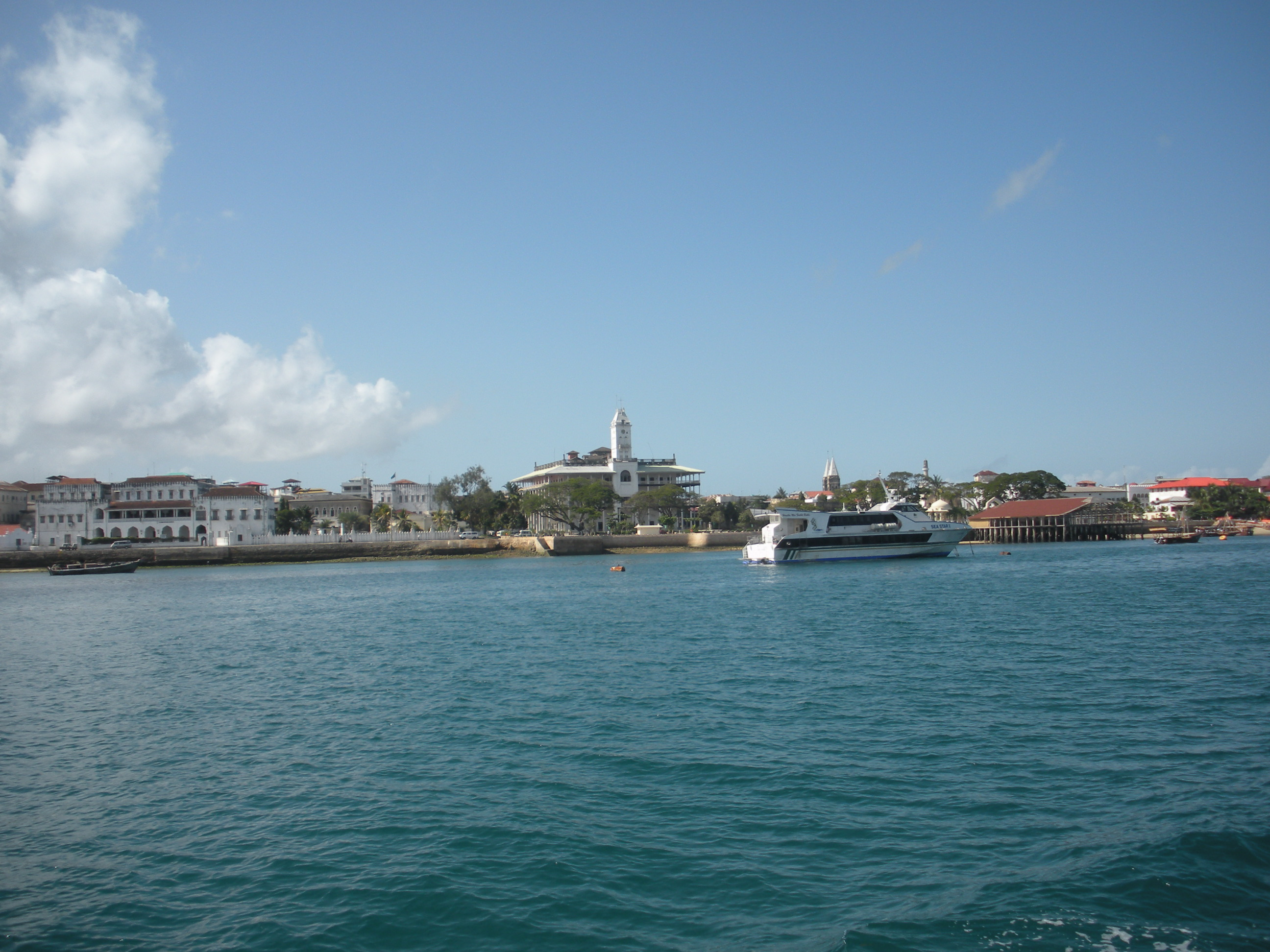 The waterfront of Zanzibar city. This photo has been taken by Mr.Chen Hualin.